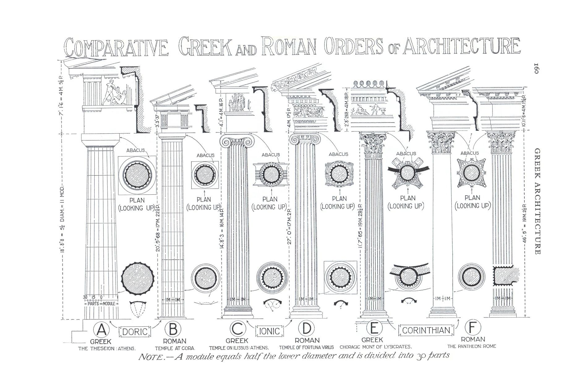 Comparative Greek and Roman Orders, Greek Architecture, History of Architecture, pg 160